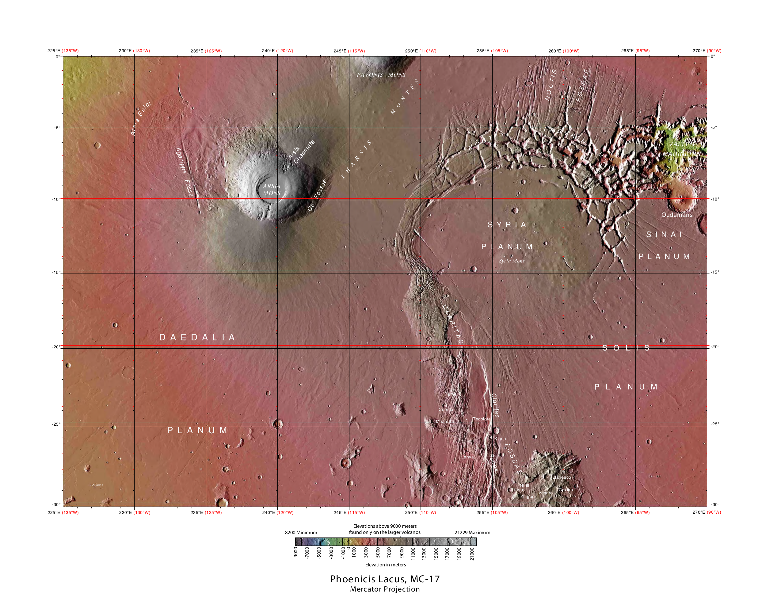 MOLA Topographic Map of Phoenicis Quadrangle (MC-17) on the planet Mars. NOTE: Converted the original PDF file to a PNG File (via GIMP v2.8.4 program) - and uploaded to Wikimedia Commons.